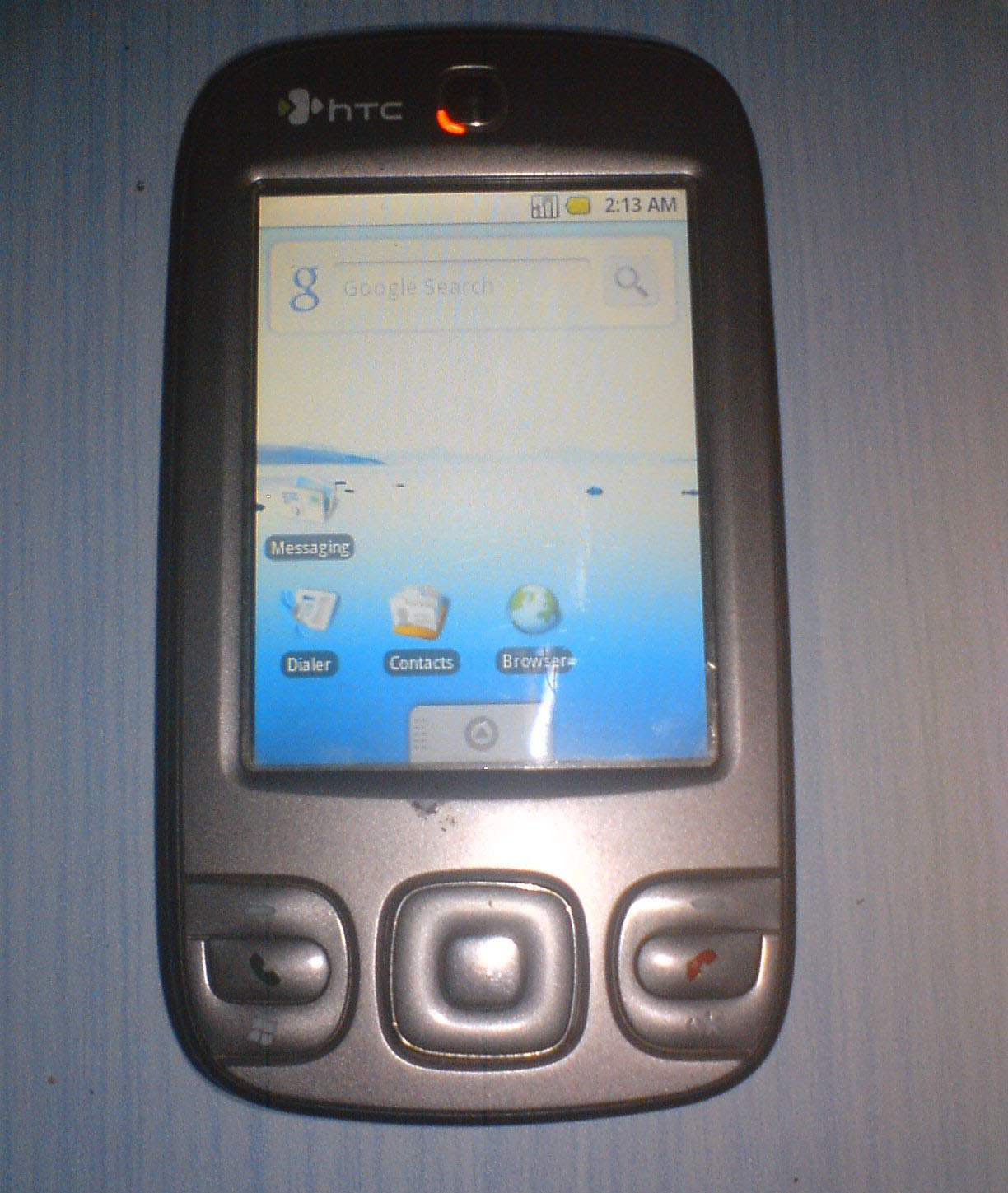 Android on HTC Gene.